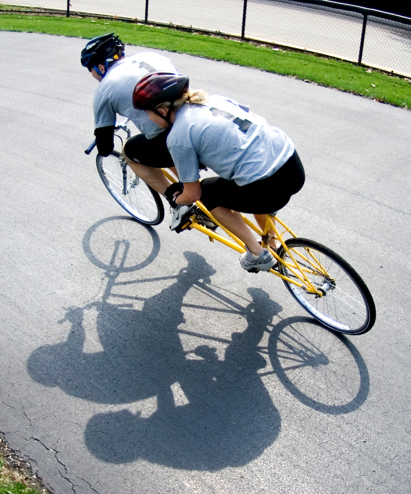 Tandem Race at Recreation East on the campus of Indiana State University in Terre Haute, IN.